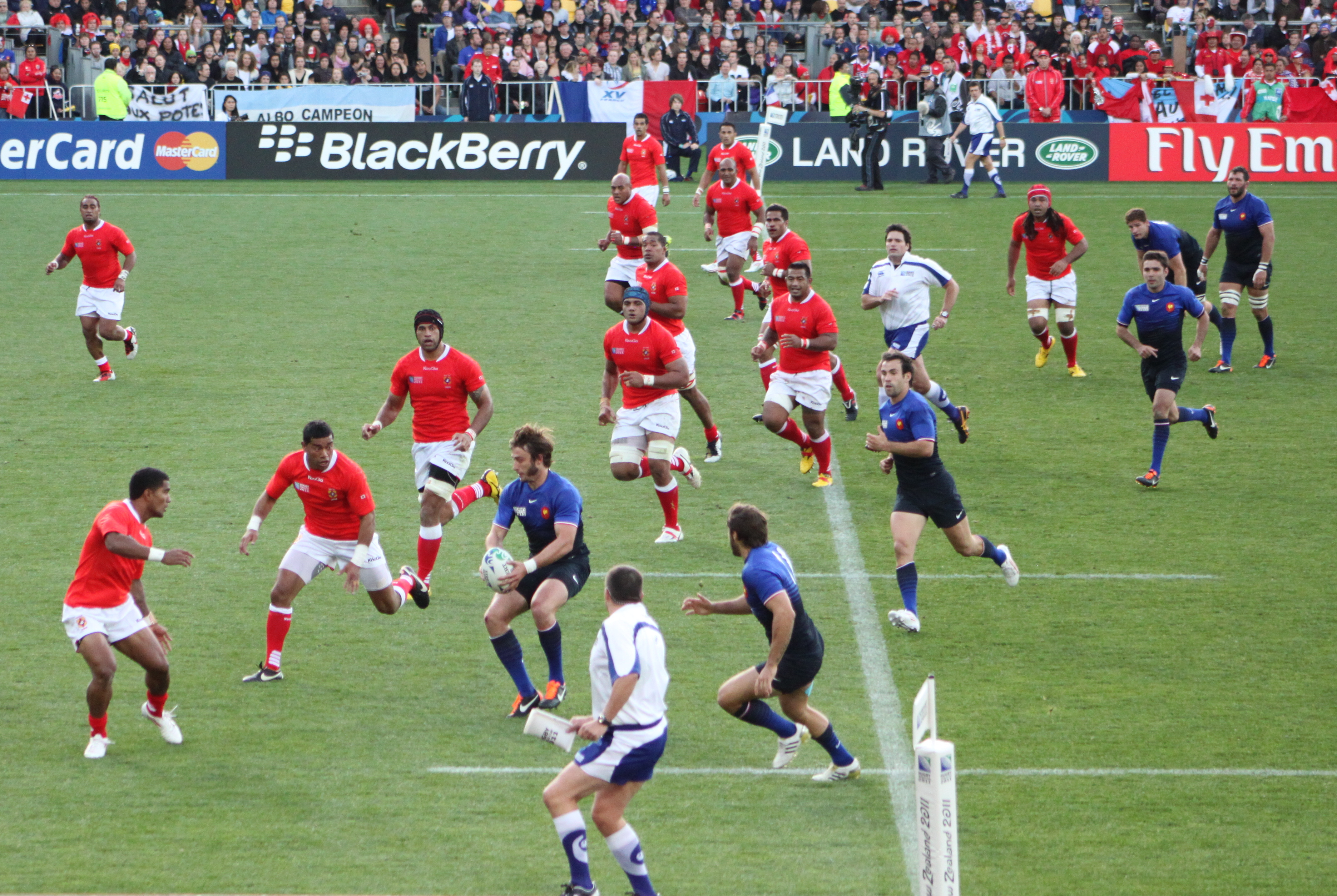 Match between France and Tonga during 2011 Rugby World Cup in New Zealand.